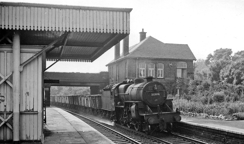 Newlay & Horsforth Station, with Up empties train. View westward, towards Shipley, Bradford, Skipton etc. The line has since been electrified, but Newlay & Horsforth station was closed on 22/3/65. The Up Class F train is headed by Hughes/Fowler 5P4F 2-6-0 No. 42926